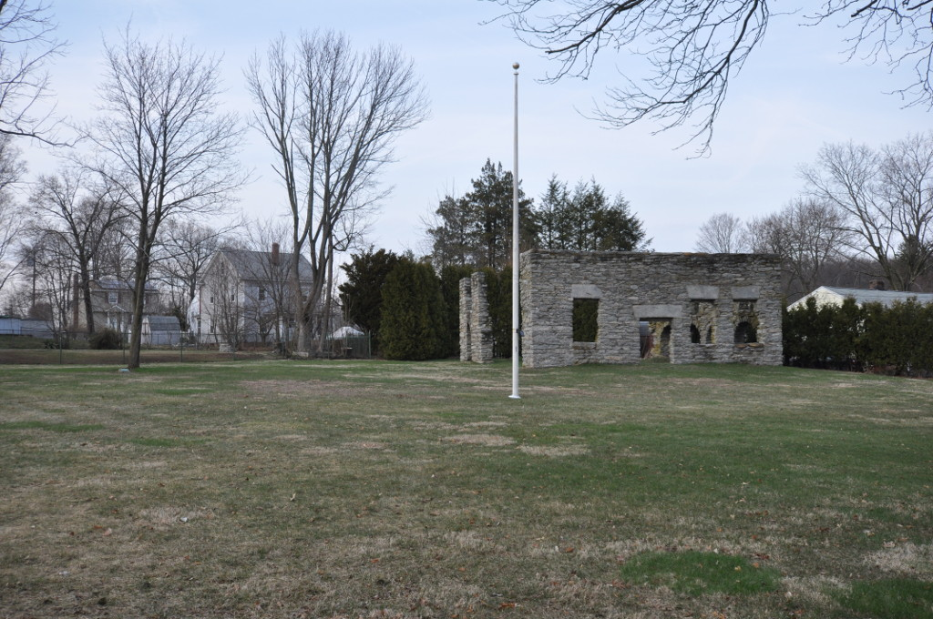 Pitkin Glassworks Ruin, Manchester, Connecticut.